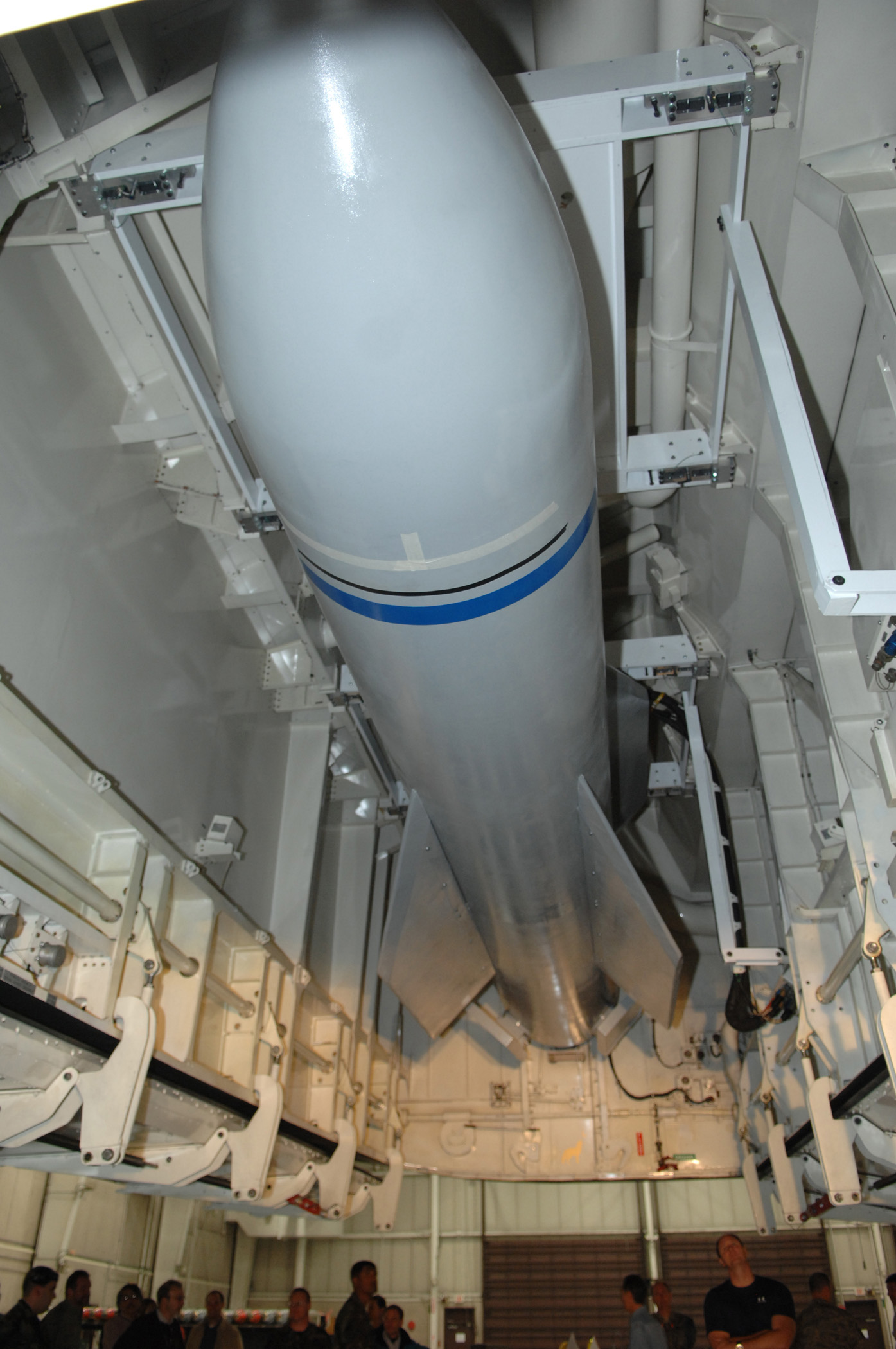 Weapon specialists look on as a mock up of the Massive Ordnance Penetrator sits in bomb bay of the B-2 weapons load trainer Dec. 18 at Whiteman Air Force Base, Mo. The MOP is approximately 20.5 feet long, with a 31.5-inch diameter and a total weight of slightly less than 30,000 pounds. The weapon will carry over 5,300 pounds of explosive material and will deliver more than 10 times the explosive power of its predecessor, the BLU-109. It is designed to penetrate up to 200 feet underground before exploding.